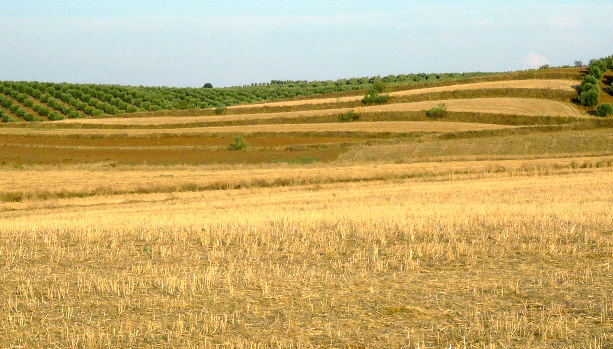 Stubble fields and olive groves. Santa Ana de Pusa, Toledo, Castile-La Mancha, Spain